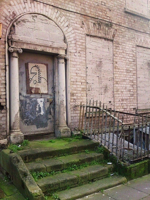 Photograph of tenement in Upper Dorset Street, Dublin. A childhood home of playwright Sean O'Casey